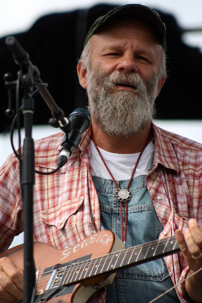 Seasick Steve